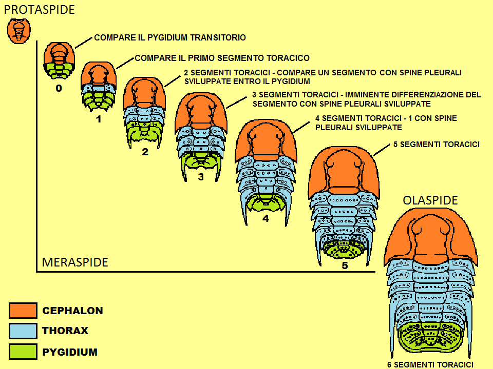 example of trilobite ontogeny (Shumardia (Conophrys) salopiensis). Redrawn after Whittington (1959) References: Whittington, H.B. Ontogeny of Trilobita, pp 127-145 in Moore, R.C., ed. 1959. Treatise on Invertebrate Paleontology, Part O, Arthropoda 1. Geological Society of America & University of Kansas Press. Lawrence, Kansas & Boulder, Colorado. xix + 560 pp., 415 figs.